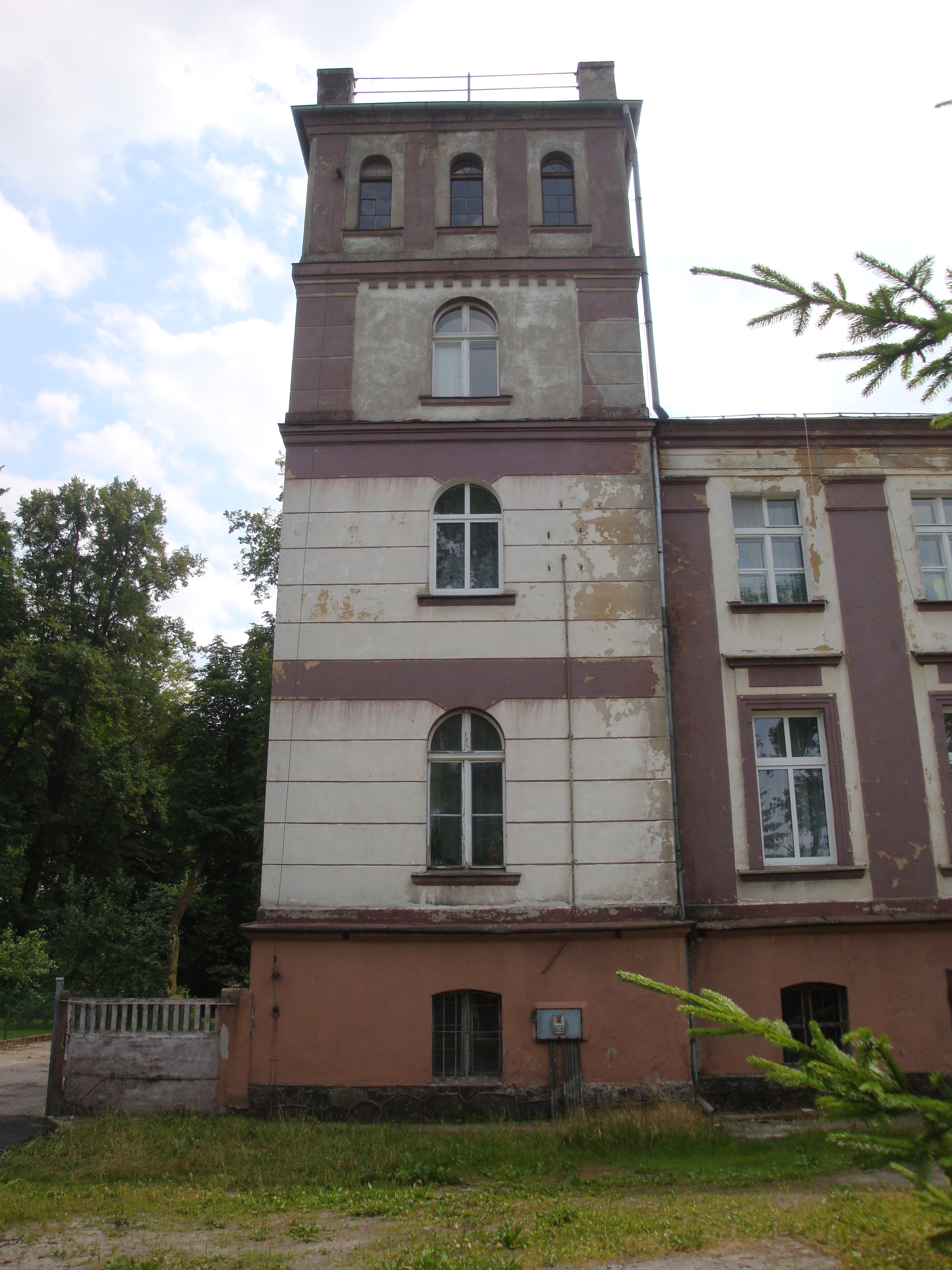 Jezierzyce-village in Pomeranian Voivodeship, Poland. Palace